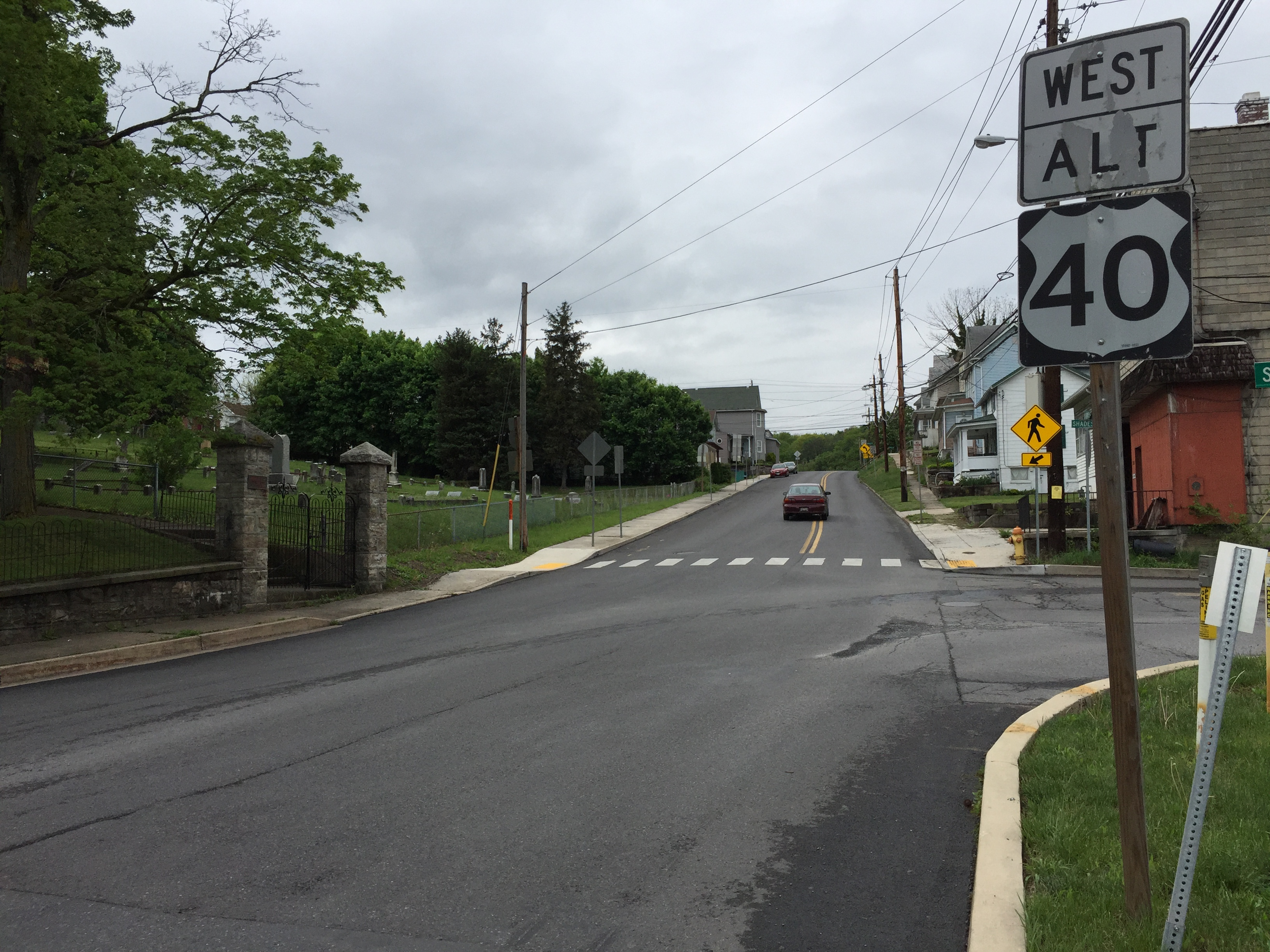 View west along Baltimore Avenue (U.S. Route 40 Alternate) in Cumberland, Allegany County, Maryland